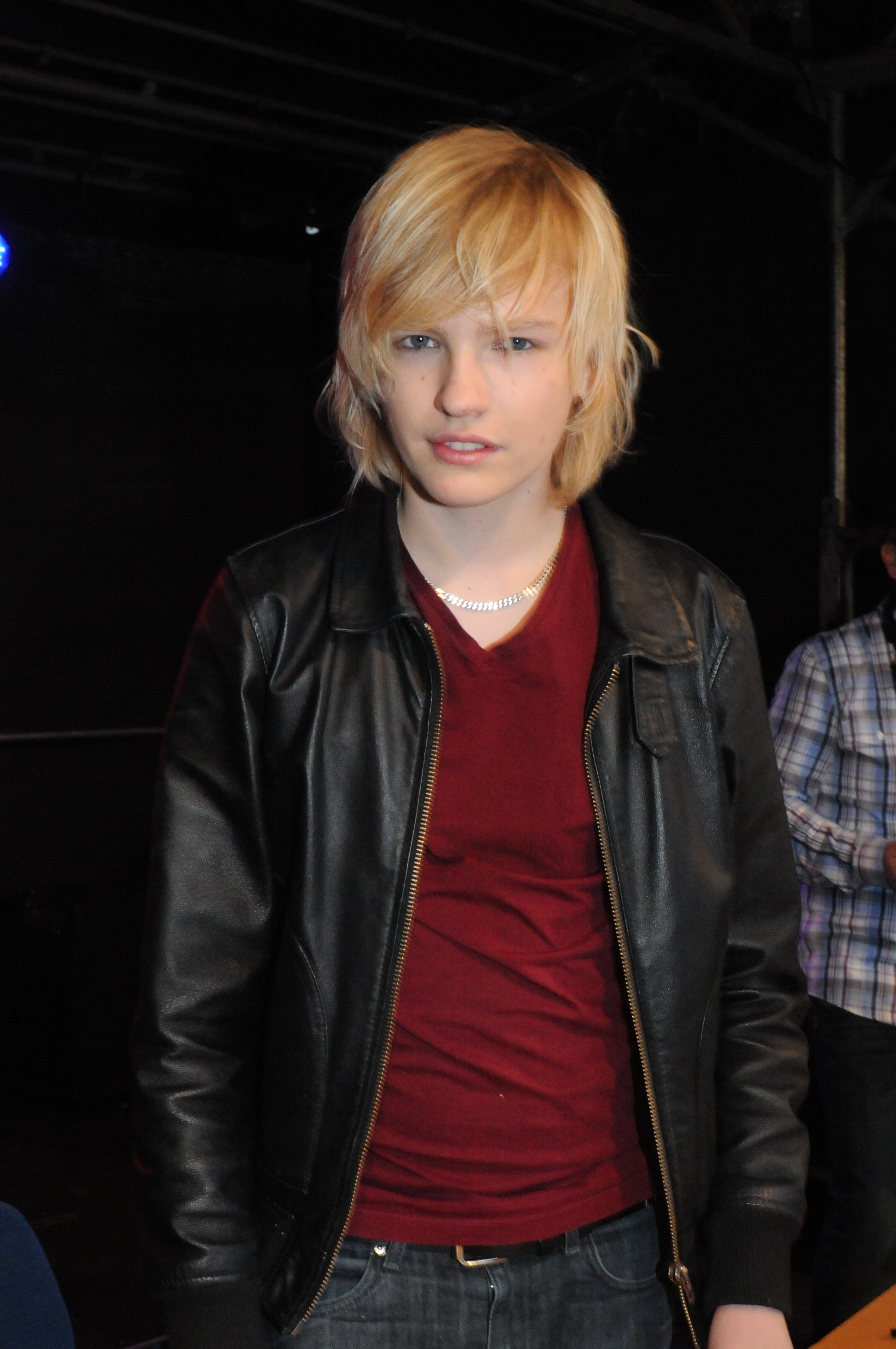 Johan Palm i Norrköping